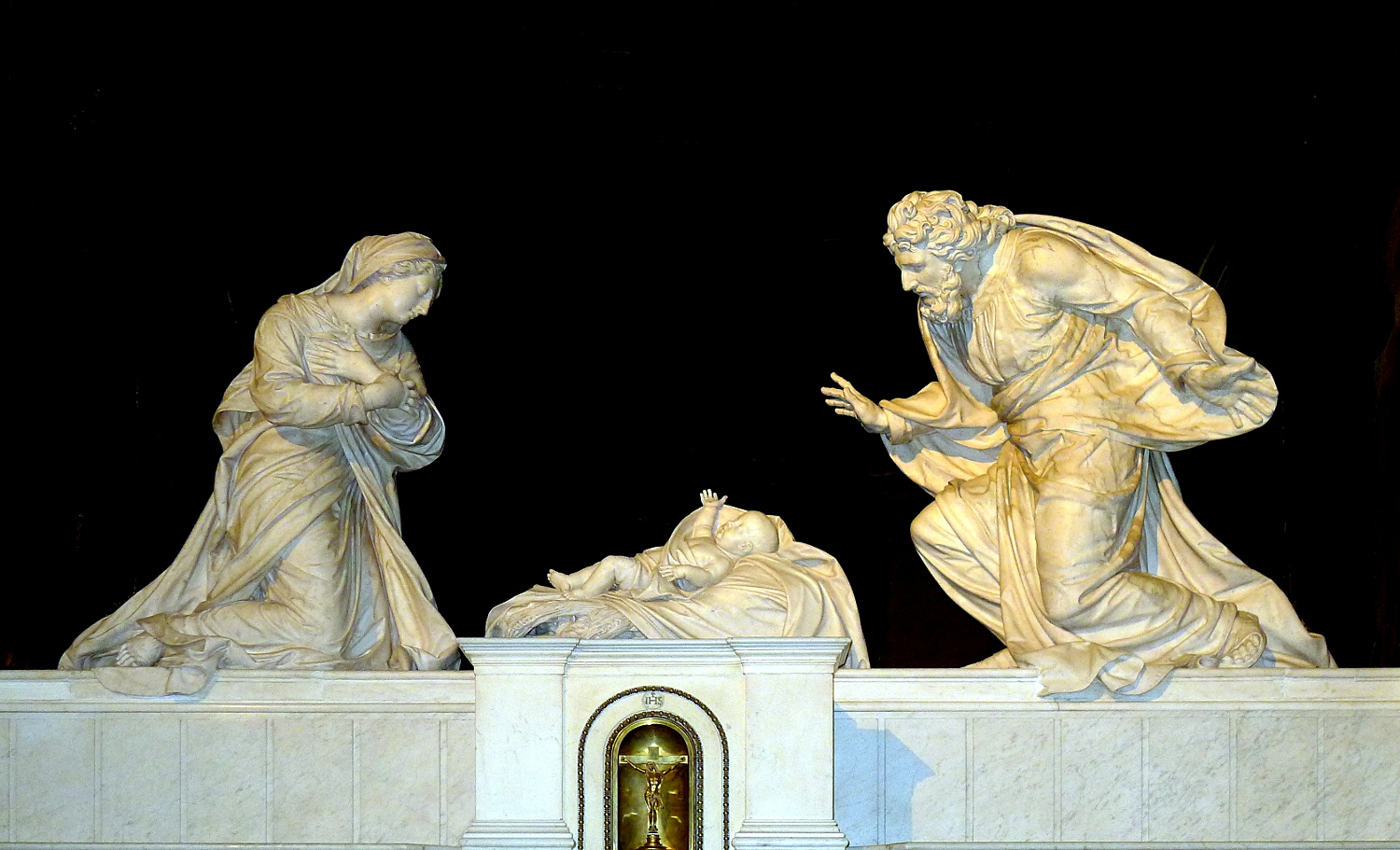 Nativite du Val-de-Grace (Michel Anguier) - Paris